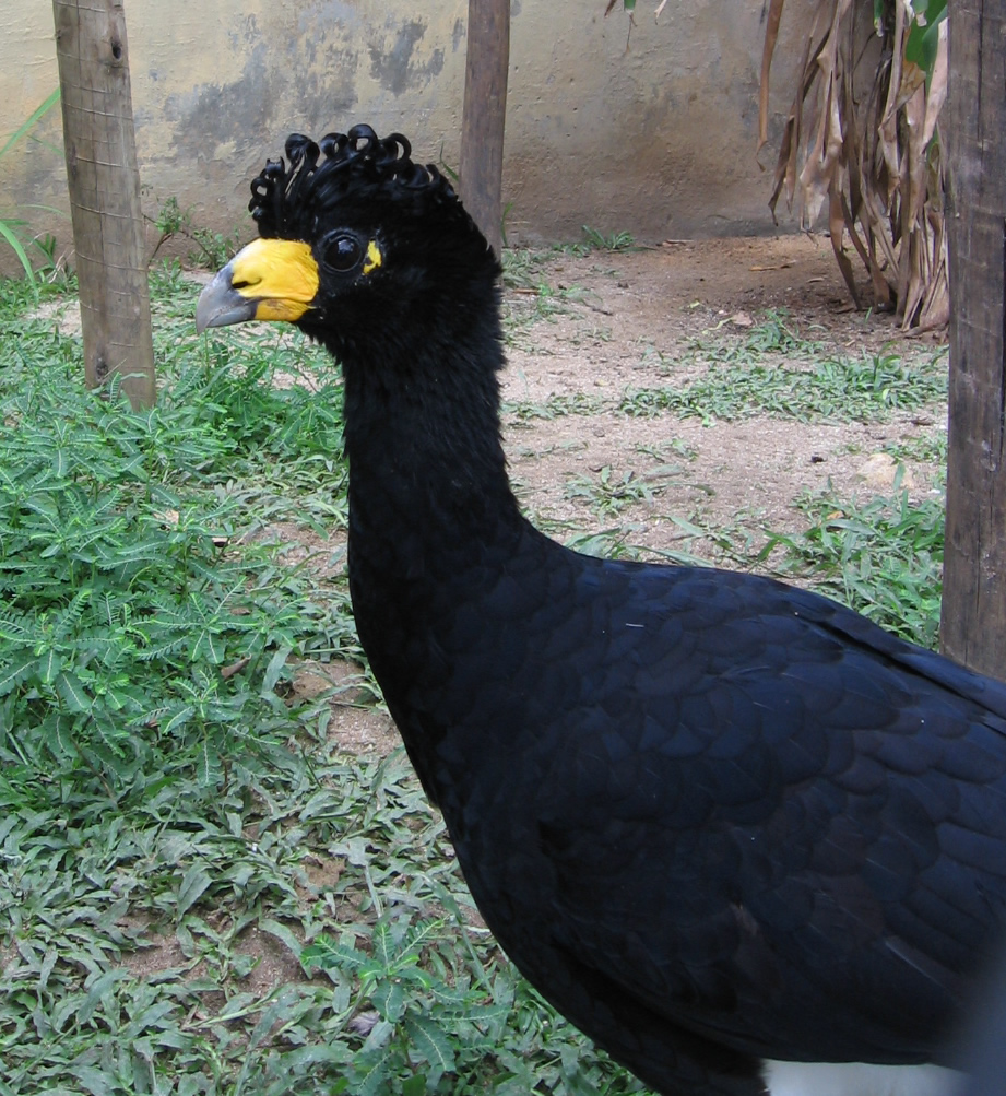 Crax alector in the Rio de Janeiro Zoo, Brazil.